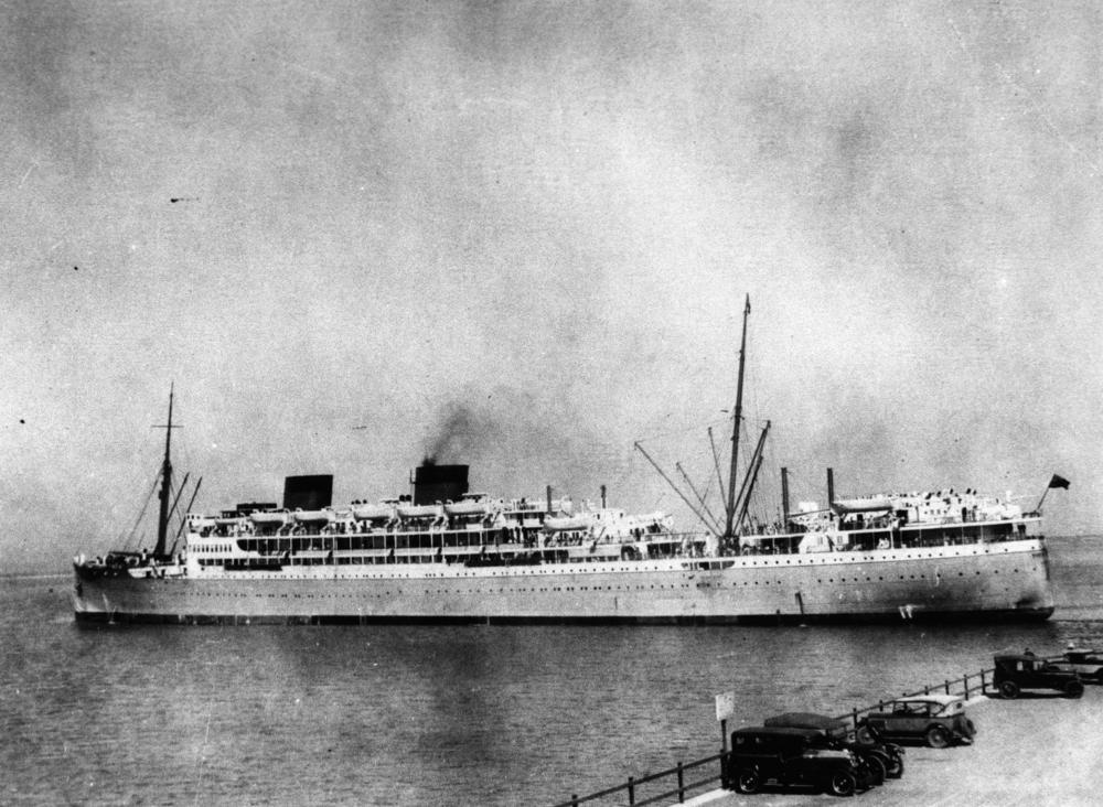 Warwick Castle (ship) on maiden voyage to Cape Town, South Africa in 1931.